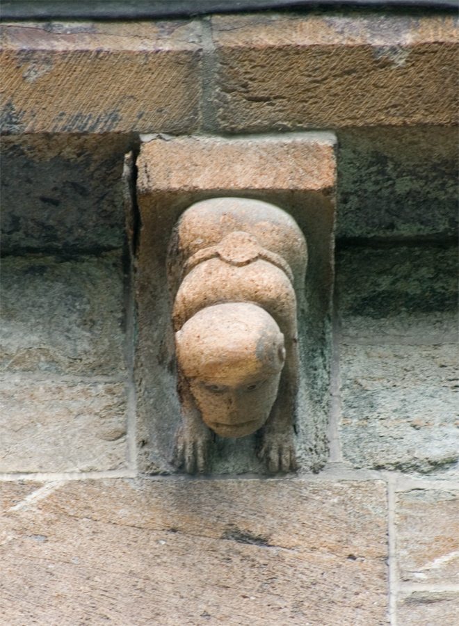 Figure from the octogone at Nidarosdomen